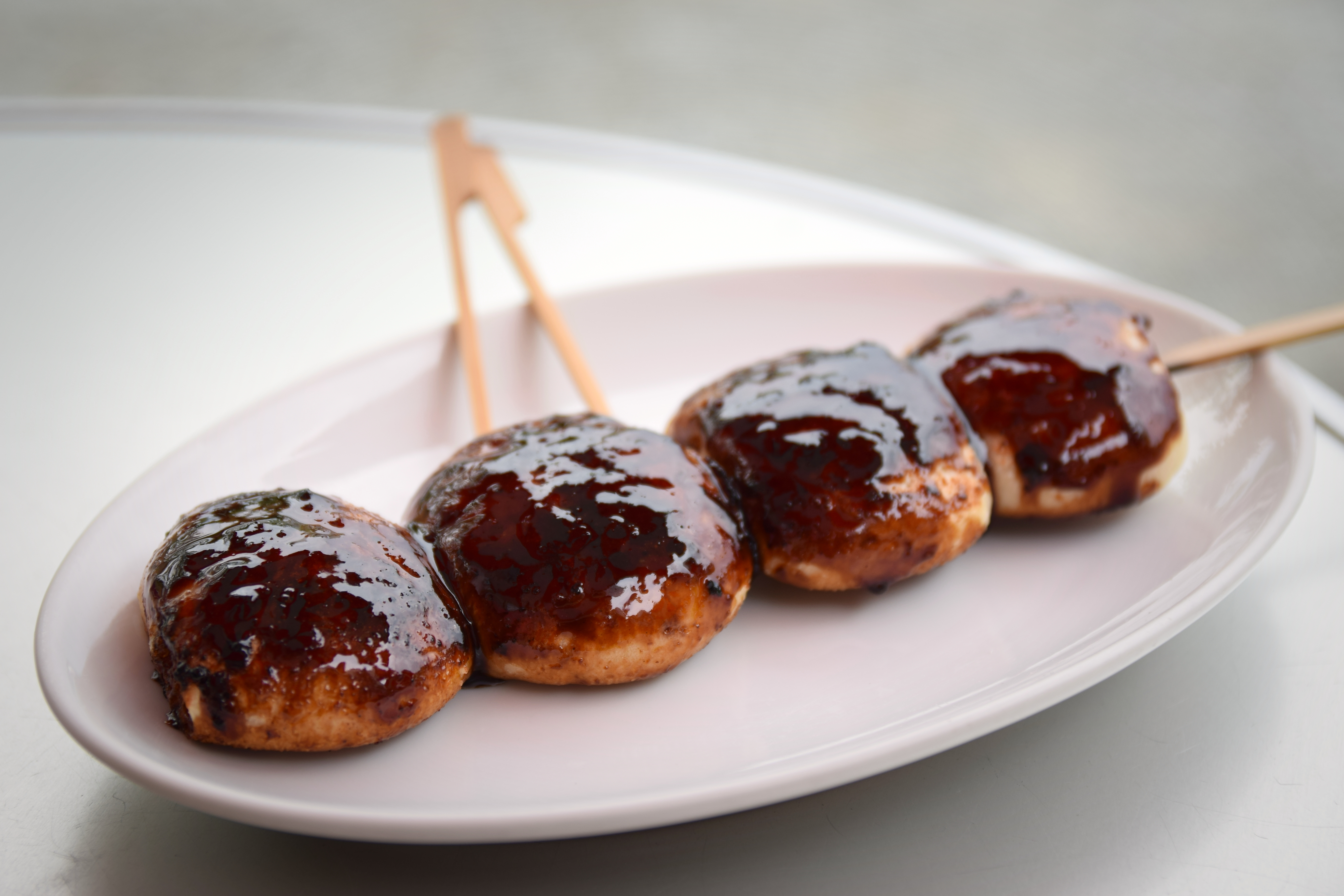 Yakimanju of Gunma, Japan.